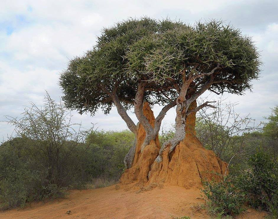 Boscia foetida subsp. rehmanniana - Matlabas River, Limpopo Province, South Africa. The topiary effect in which the trunk is bare and the foliage comes down to a fixed level, shows the browse line below which game and livestock have been able to browse. The association with the termite nests probably is partly mutualistic, the tree supplying organic material and the termites and the mounds offering protection for the trunks, conserving moisture, and effluvia that nourish the tree.